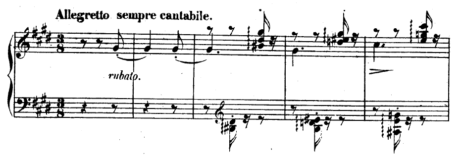 Sheet Music, 1850 Breitkopf, Consolations S.172/6, Opening Bars